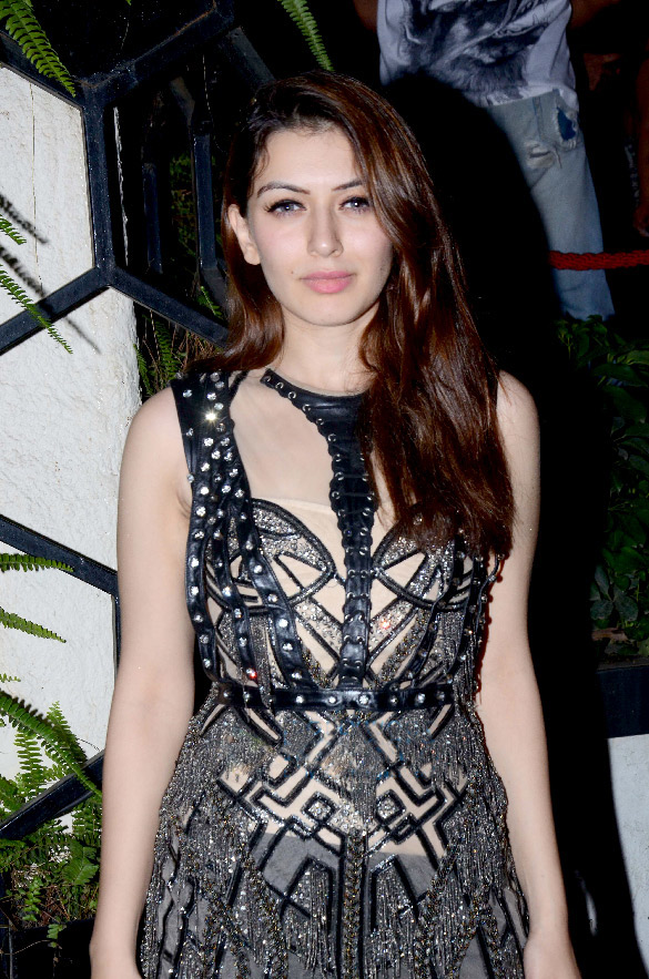 Hansika Motwani celebrates her birthday at Arth Bar, Aug 12, 2018